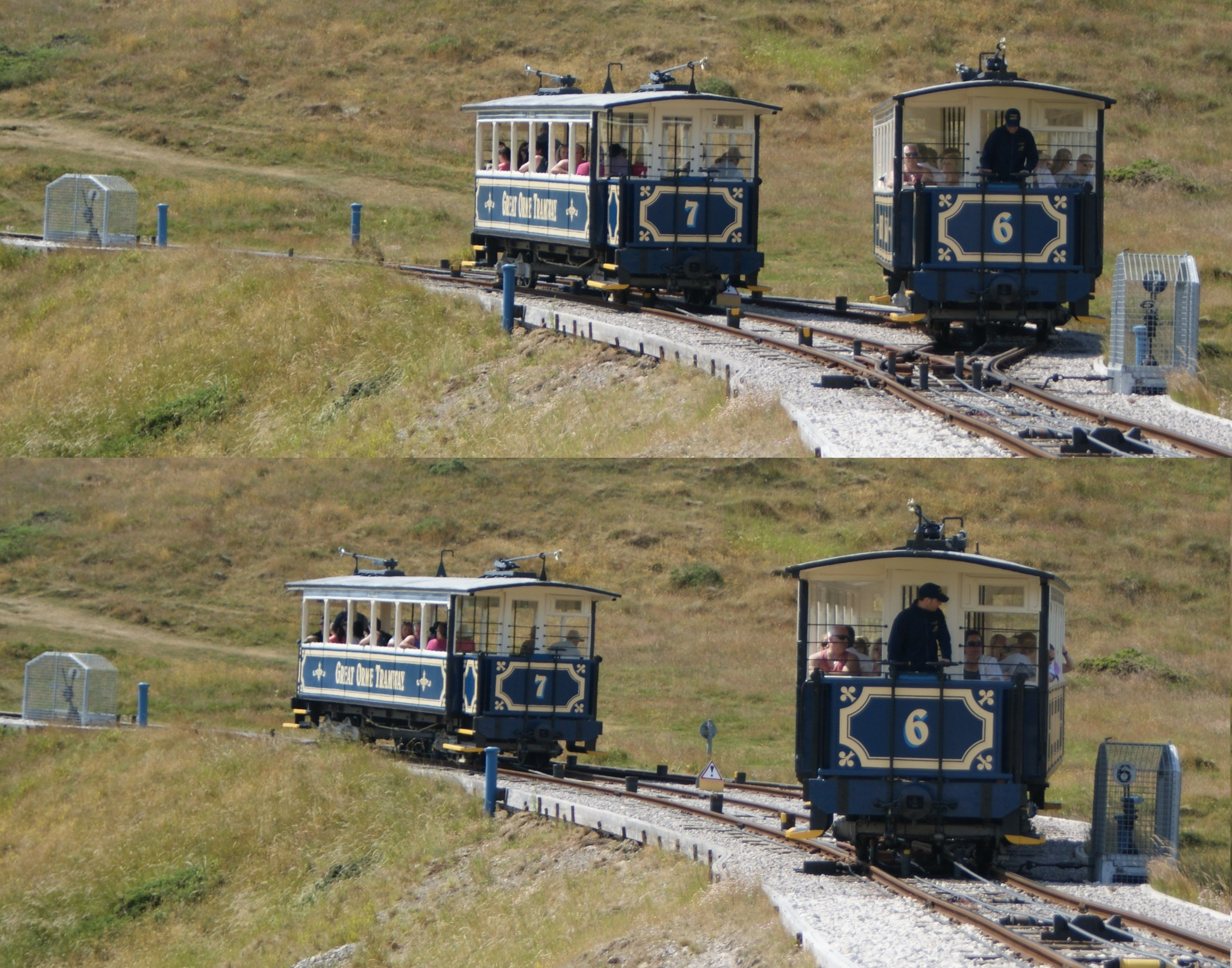 Great Orme Tramway Car n°7 has entered the passing loop but the point indicator is still to 7. A few moments later car n° 6 sets the point and the indicator now shows "6".